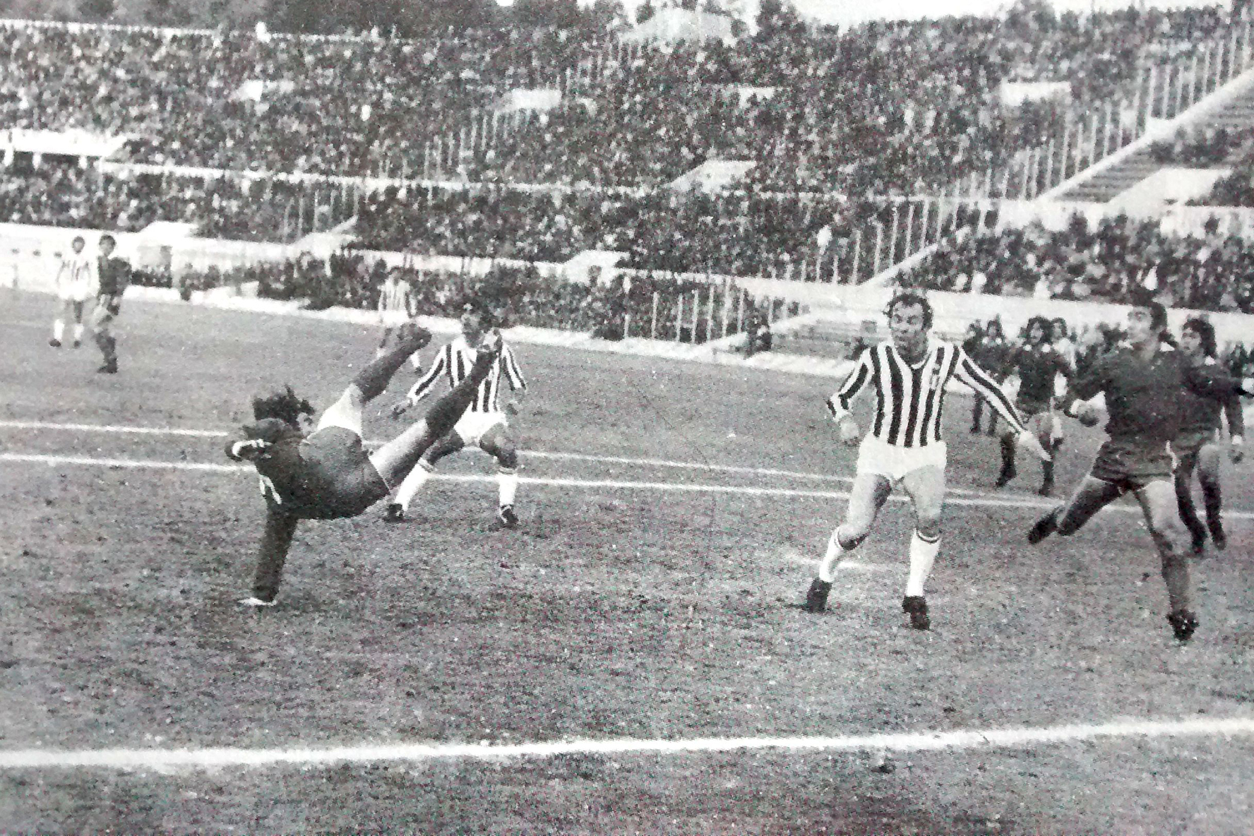 Rome (Italy), Olympic Stadium, November 28, 1973. Juventus F.C. — C.A. Independiente 0-1, 1973 Intercontinental Cup: Juventus' forwards José João Altafini (foreground) and Pietro Anastasi (background) in action versus Independiente's defenders.